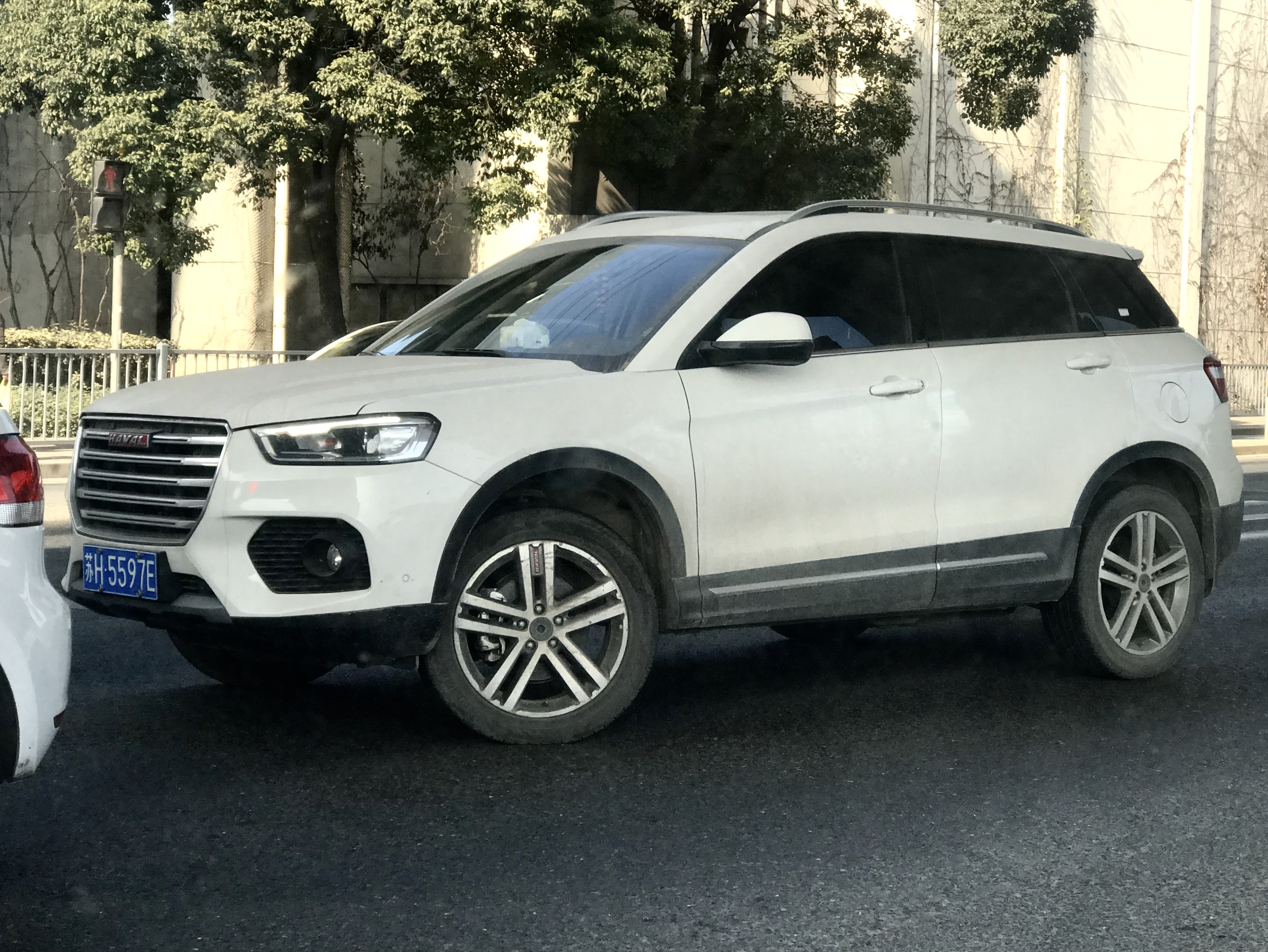 Haval H6 Coupe (Red Label)